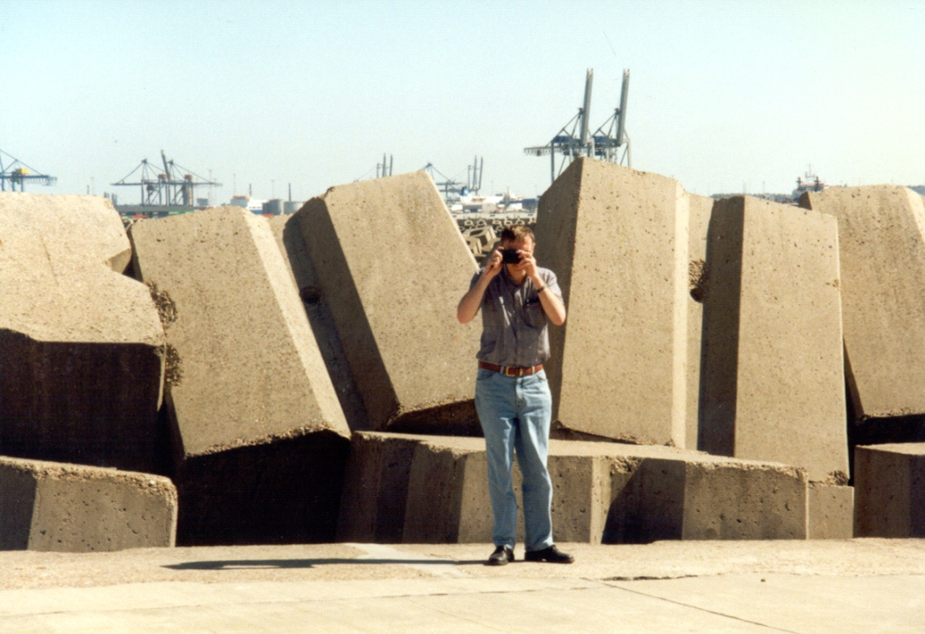 Antifer Cube on the breakwater of Zeebrugge (Belgium)